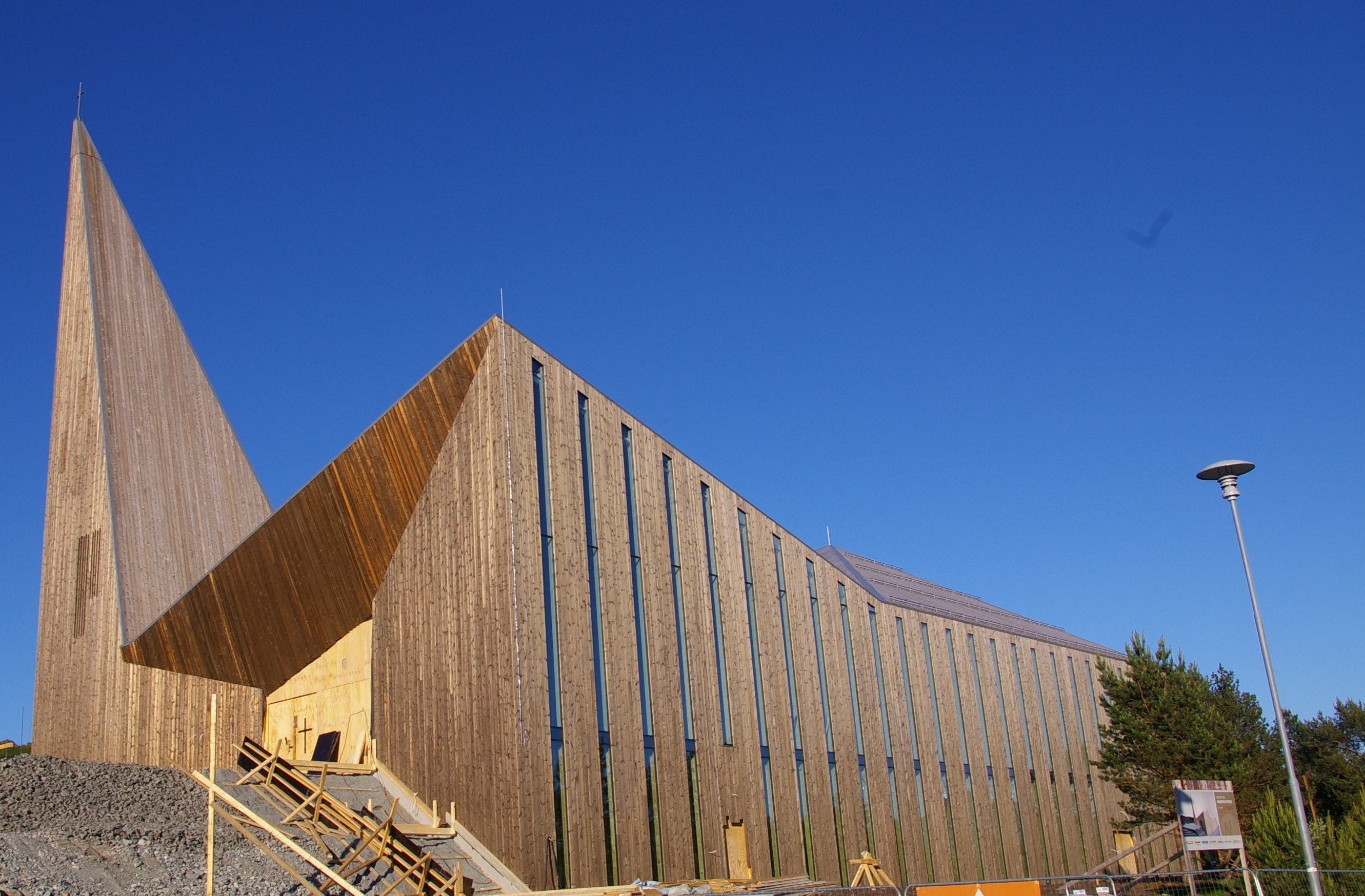 Knarvik church during the building process